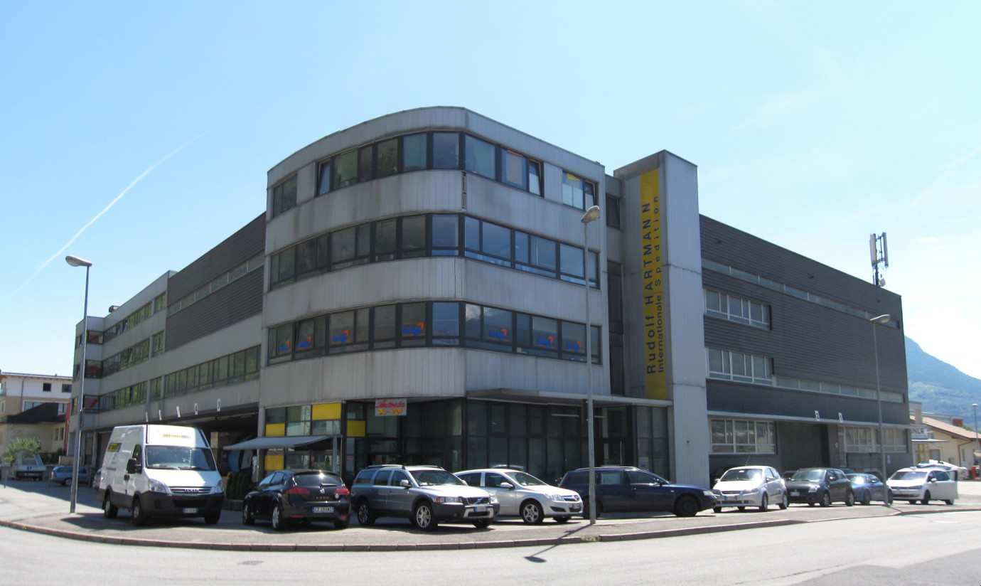 Headquarters at Johann-Kravogl-Strasse of Rudolf Hartmann, logistics company in Meran, South Tyrol.